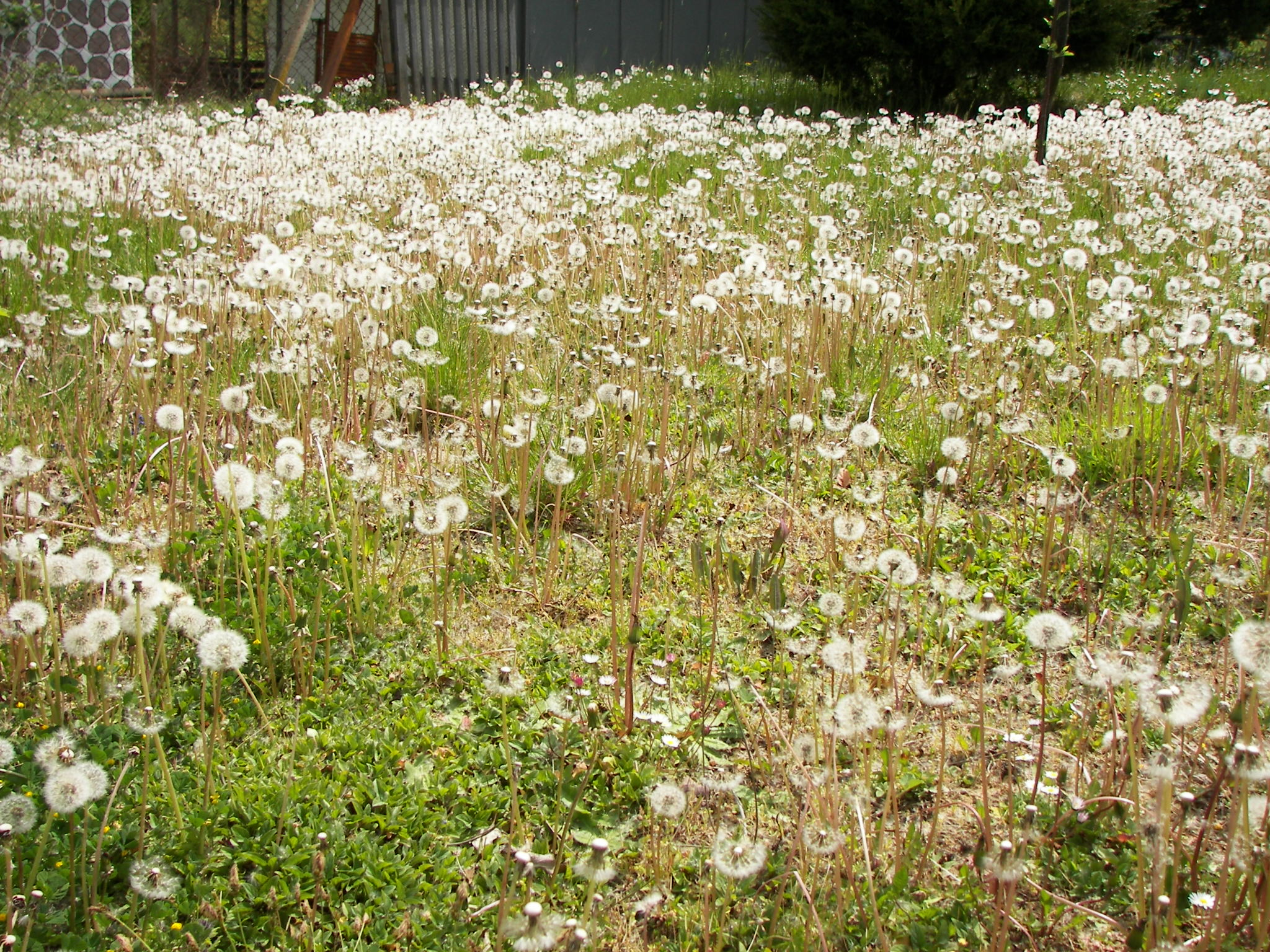 Taraxacum